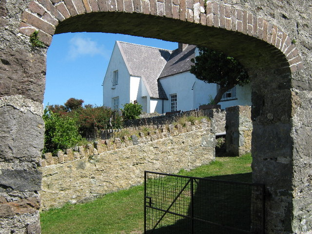 Cristin house, from the farmyard Cristin is the home of the Bardsey Bird & Field Observatory.